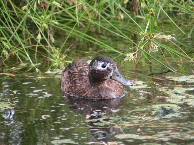 Male Laysan Duck (Anas laysanensis)